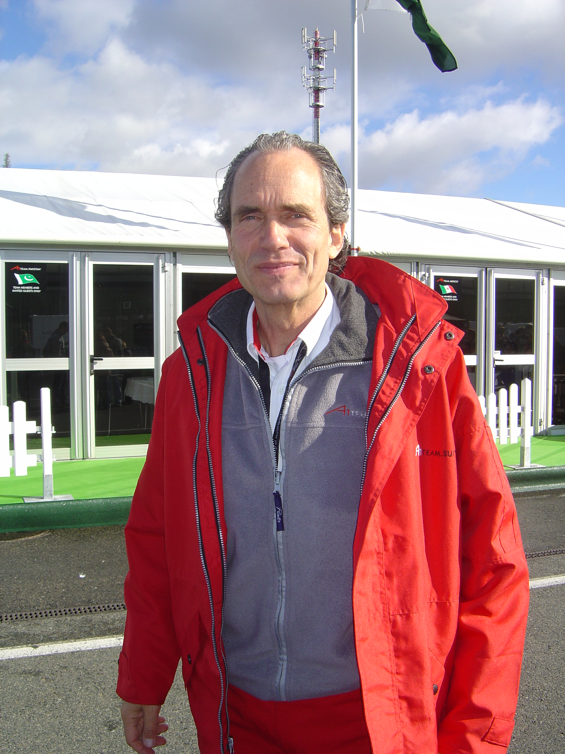 Max Welti: the photo was taken during 2007's A1GP race weekend at Brno